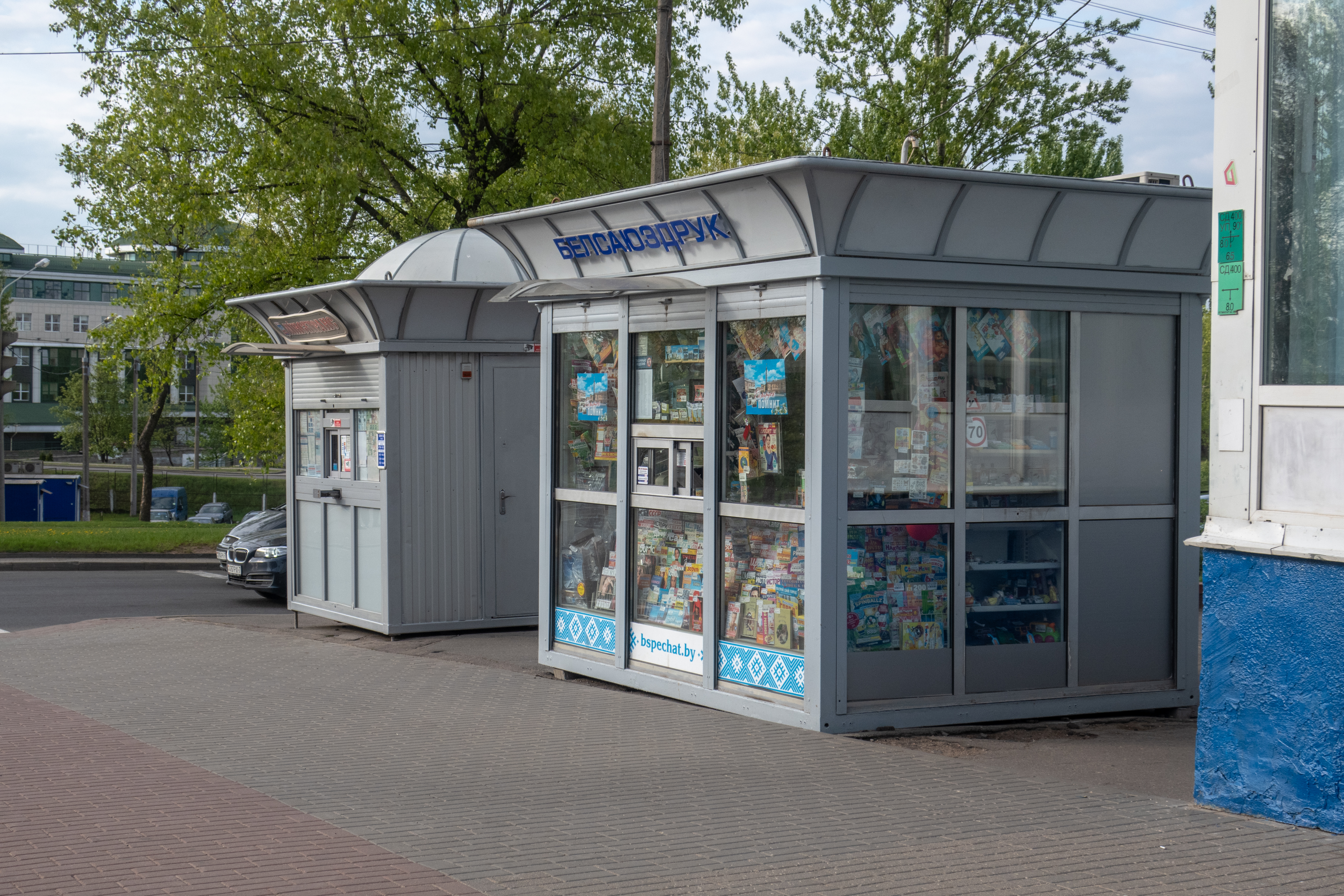 Two shopping kiosks in Minsk: Minsktrans (public transport tickets) and Belsayuzdruk/Belsoyuzpechat' (newspapers, magazines, stationery)